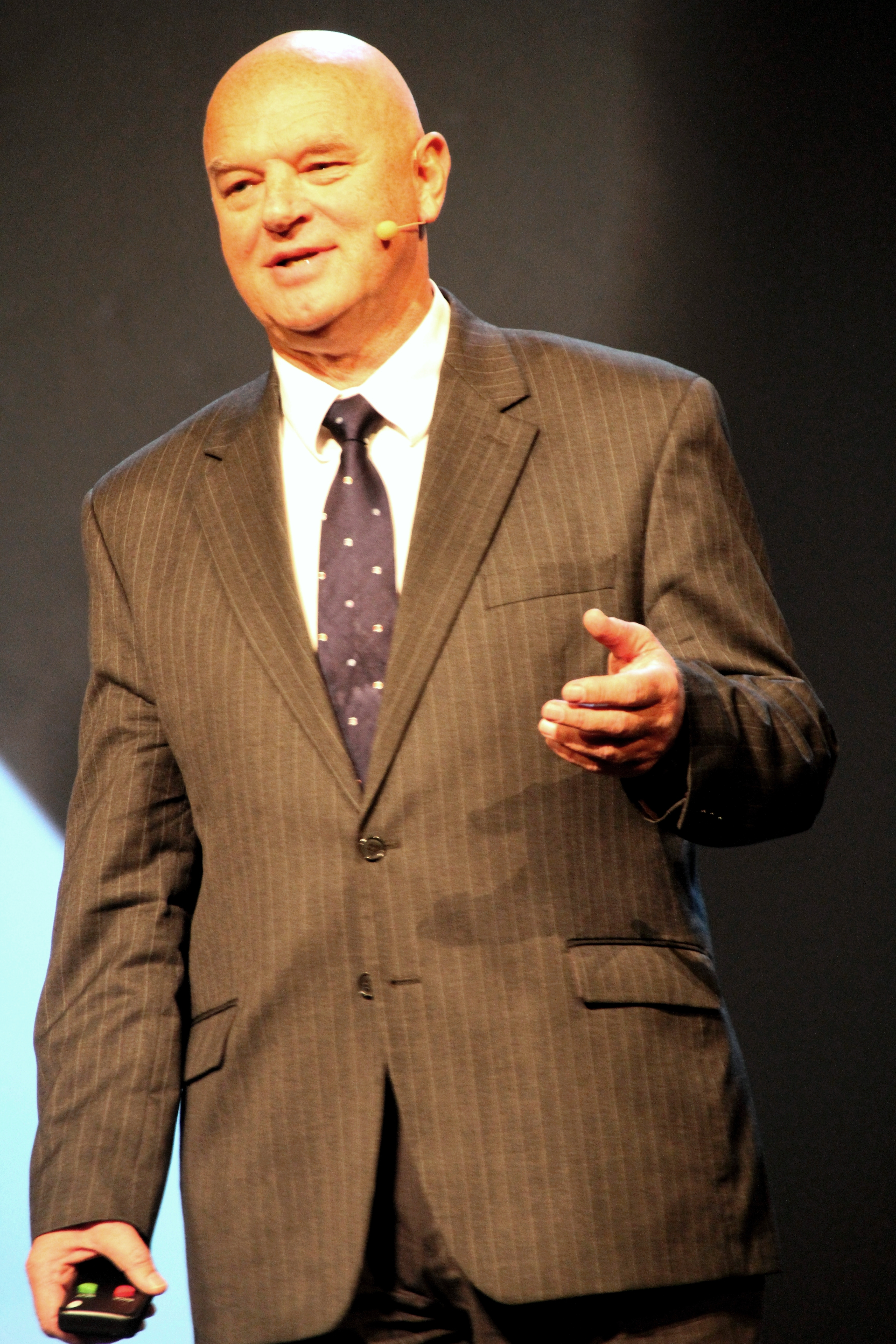 Jan Vincents Johannessen, CEO of Oslo Cancer CLuster, CXO of Radiumhospitalet.